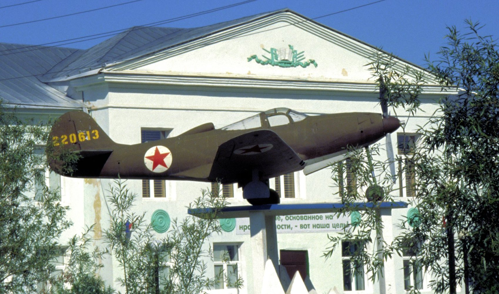 P-39 Airacobra supplied to the Soviets by the Americans during World War II. Museum aircraft photographed at Yakusk in eastern Siberia. This airplane was retrieved from the taiga between Yakutsk and Krasnoyarsk, then restored. Hamilcar Barca 17/07/2007 Hamilcar Barca